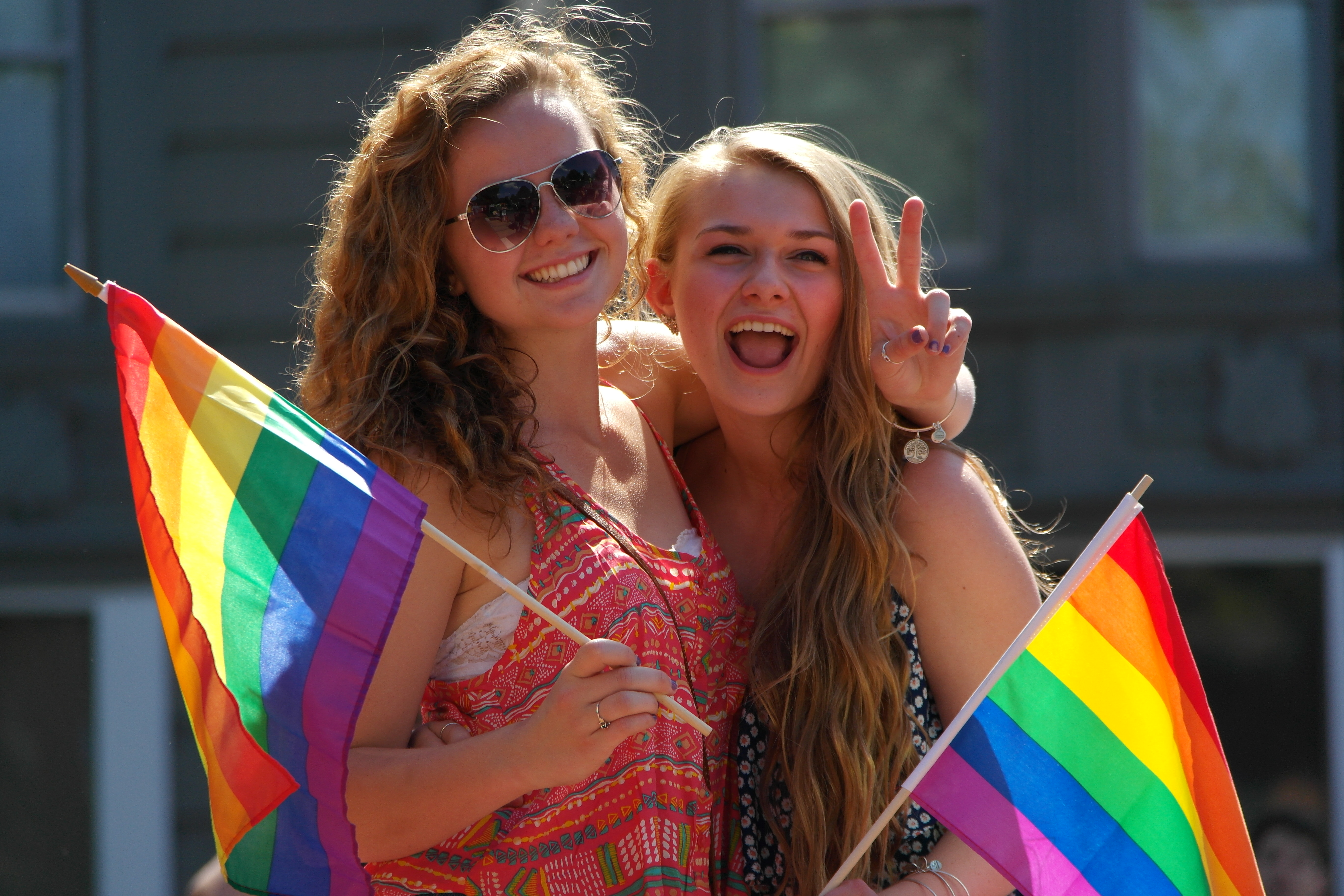 The 39th Annual Capital Pride Parade.